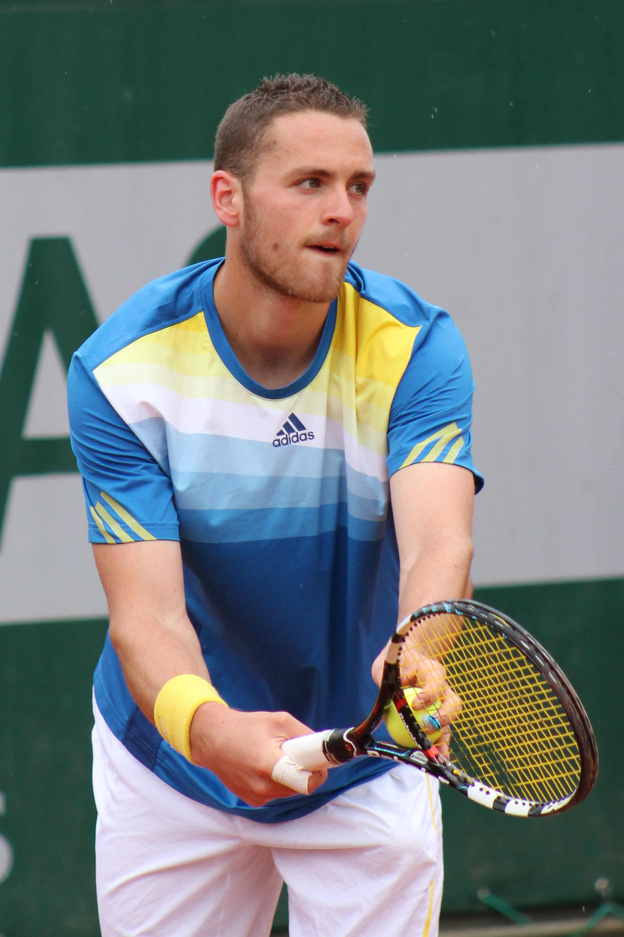 Albano Olivetti playing at Roland Garros 2013